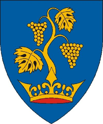 Coat of arms of Imrehegy, Hungary